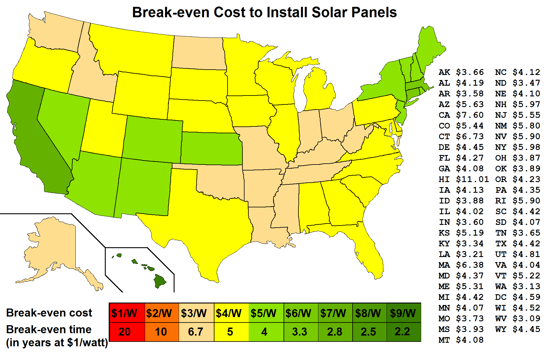 The break-even cost to install solar panels is a function of the amount of insolation, the cost of electricity, and the service life, assumed here to be 20 years. The map shows the break-even cost based on the insolation, in KWh/m²/day, or sun hours per day, times 365 days/year times 20 years times the average cost per kWh in each state. The numbers are an approximation, since cost and insolation vary within each state. Electricity cost is average residential for 2015 from the EIA.[1] The break-even cost is increased if electricity prices increase over time, or if any incentives are available, and reduced if maintenance and finance costs are included. For example, Nellis AFB is obtaining solar electricity for 2.2 ¢/kWh, from solar panels installed at a cost of $5.49/Watt, due to the sale of the Renewable Energy Credits. With the increases in electricity prices there are no states where solar is not cost effective, when the 30% tax credit is included. The map is essentially a combination of and .